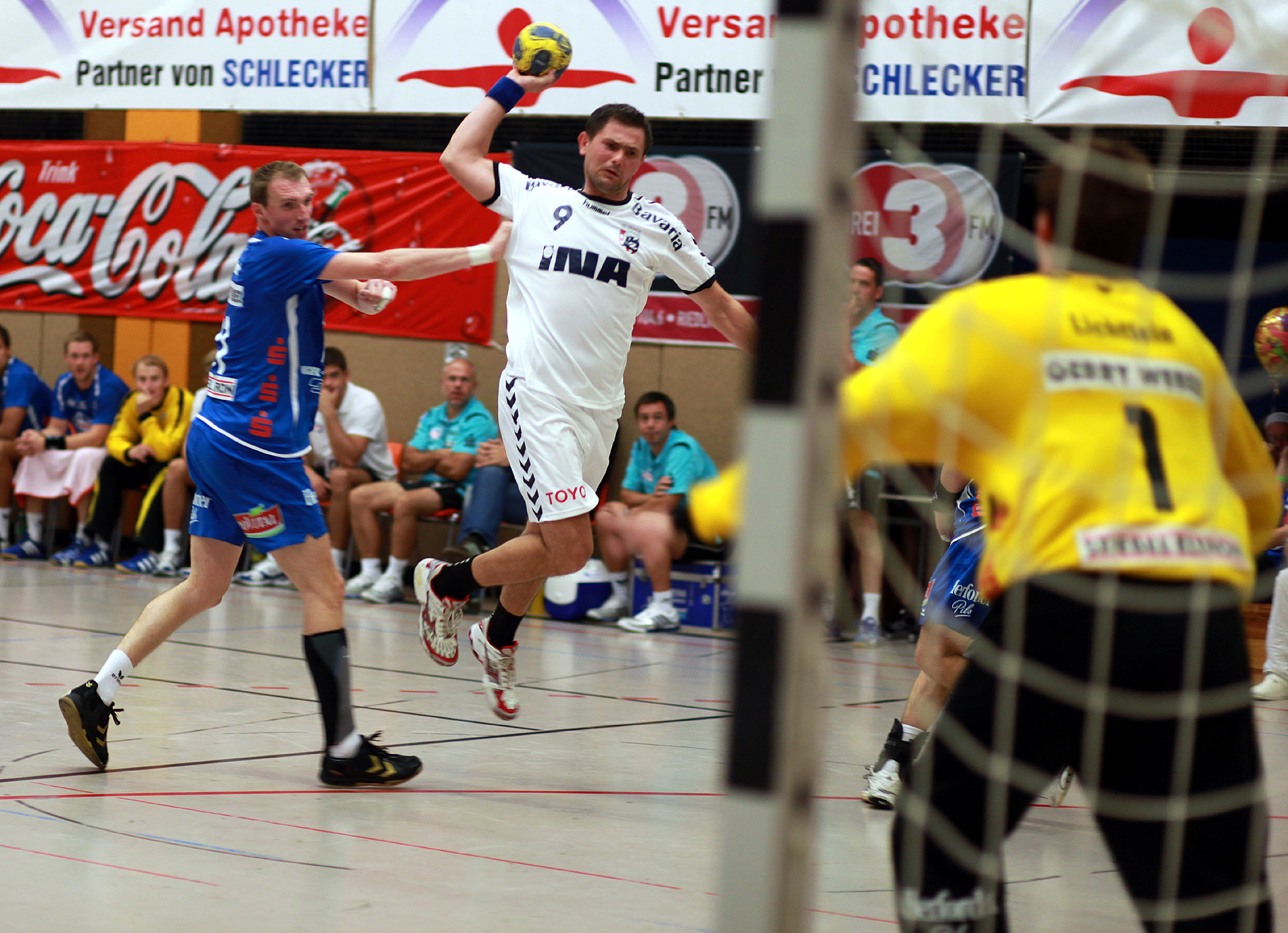 Denis Špoljarić, Croatian handball player, playing for RK Zagreb, on August 22nd, 2009 in Ehingen (Germany), during the Schlecker Cup 2009.